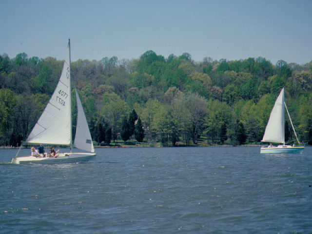 Conewago Lake at Gifford Pinchot State Park